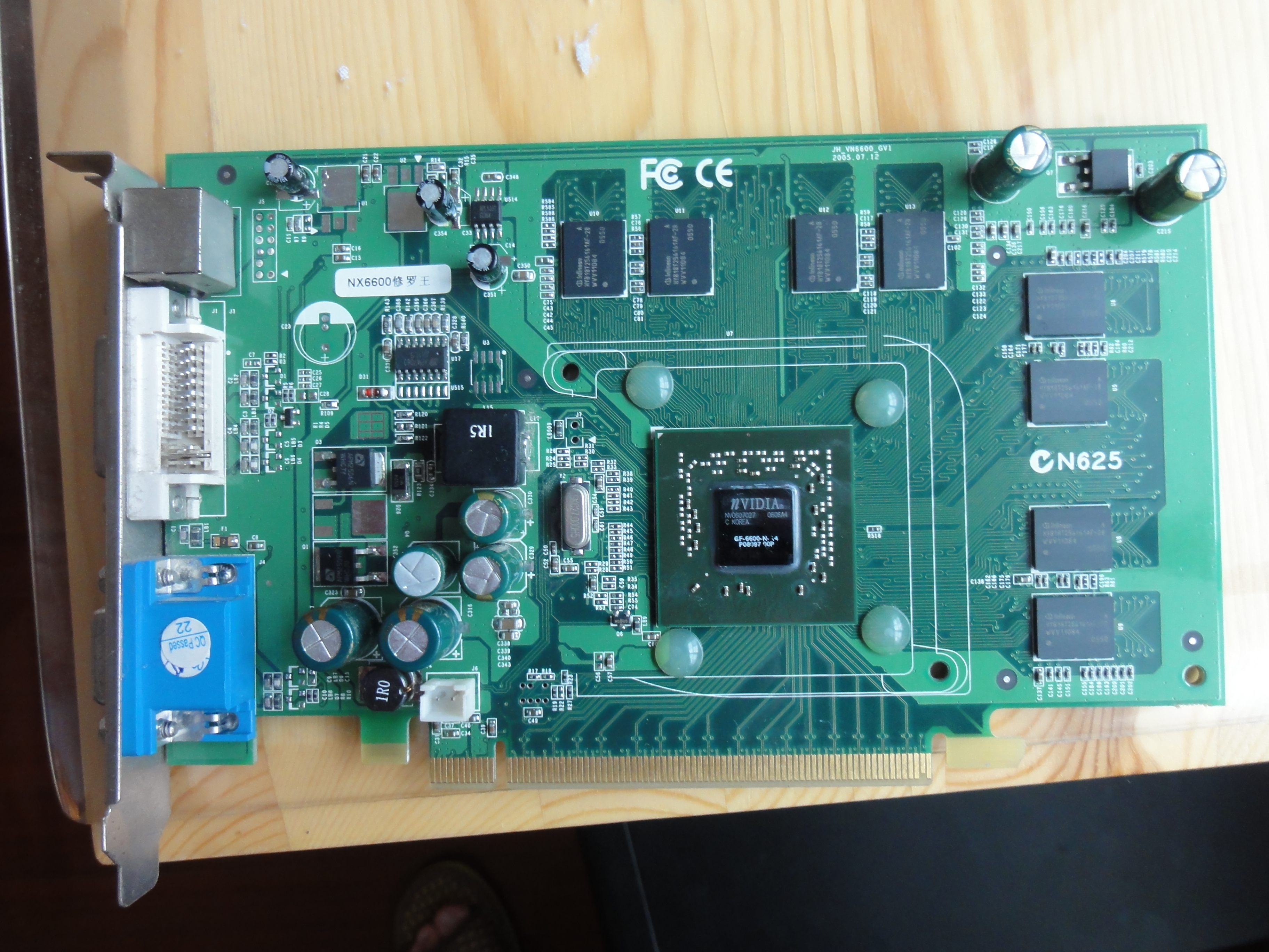 A PCI-E Version of Geforce 6600 GT without the heat sink中文（中国大陆）: Geforce 6600 GT的PCI-E版本，散热器已拆除